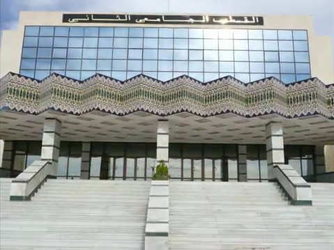 University of Tlemcen (pole2) - Algeria